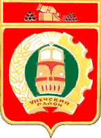 Coat of Arms of Unechsky Raion, Bryansk Oblast, Russia